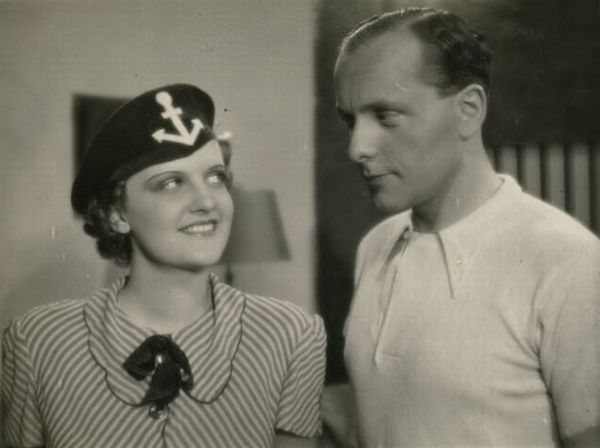 Scene from the Hungarian movie titled Tisztelet a kivételnek (released in 1937)